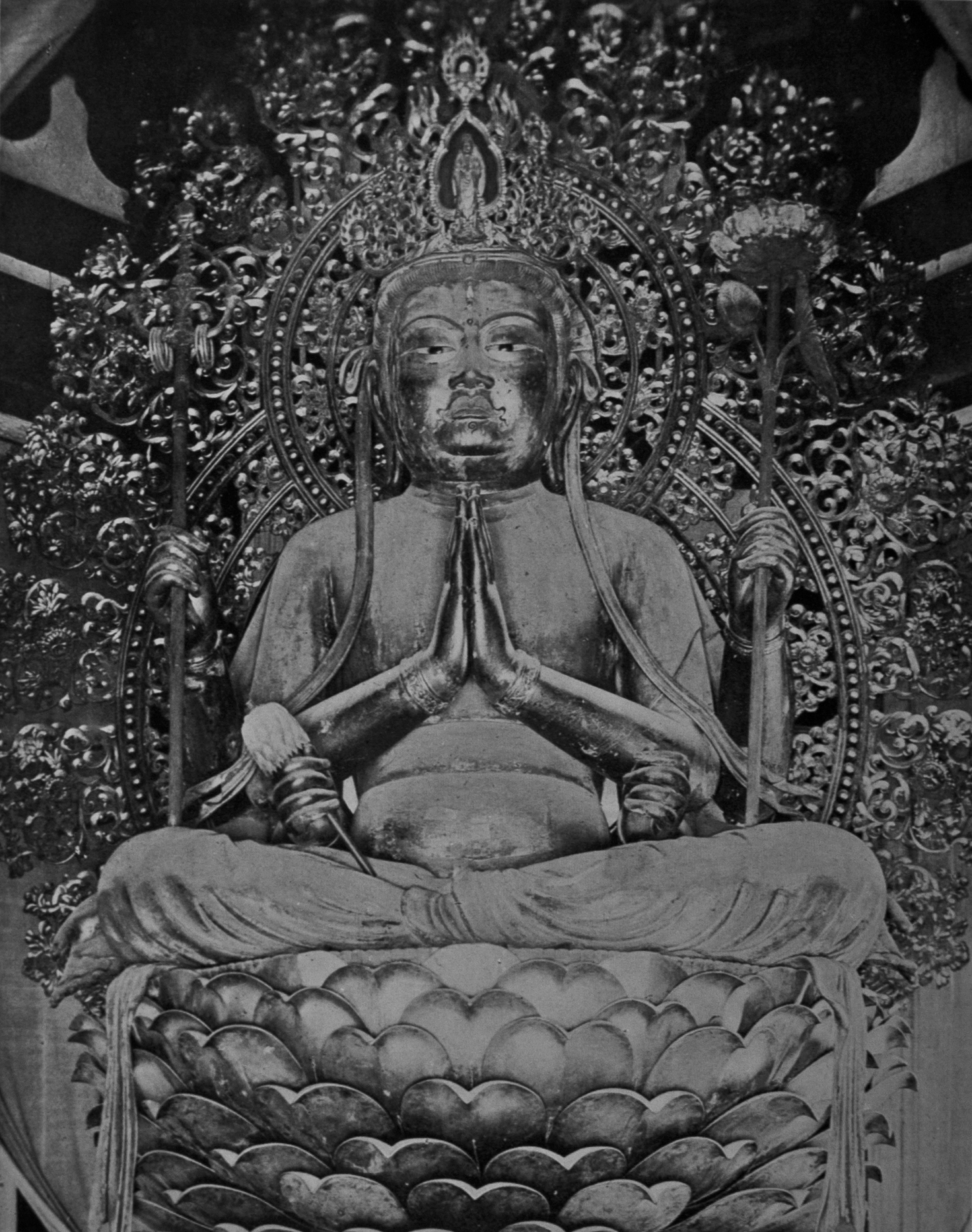 Nanendo, Kofukuji, Nara, Japan. Sculpture by Kōkei, 1189, Wood and gold leaf over lacquer.